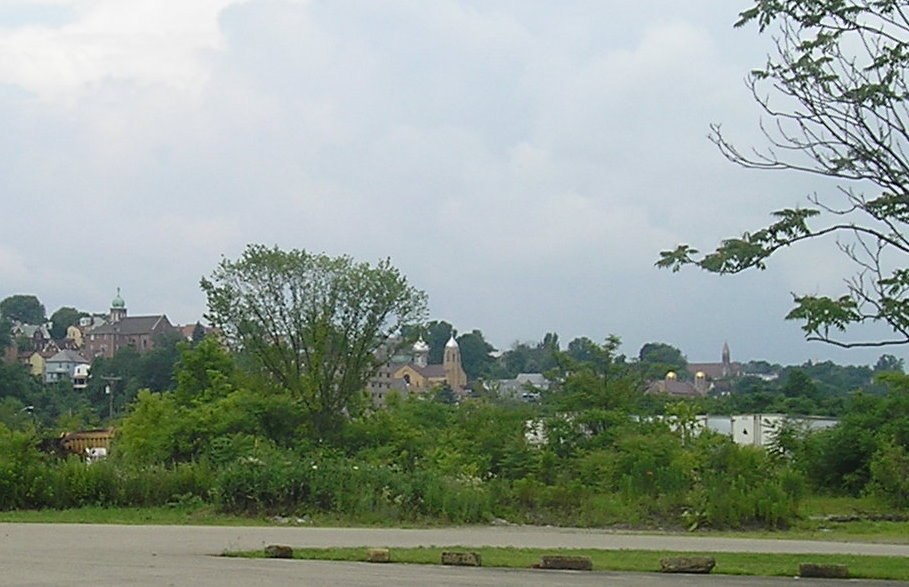 View of Monessen, Pennsylvania, from the north